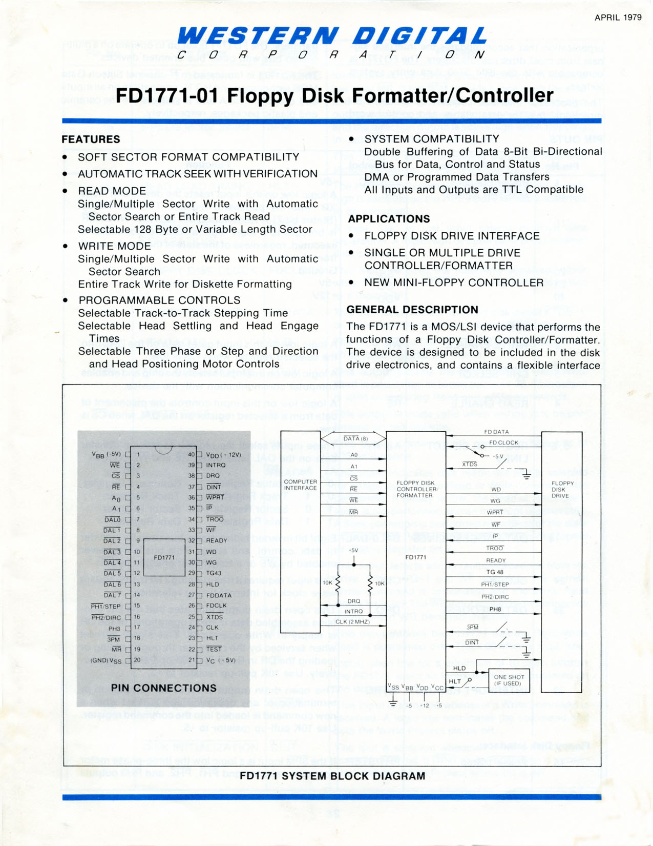 Western Digital FD1771 floppy disk controller datasheet. (Cover of a 20 page booklet.) The FD1771 was introduced in July 1976 at about the same time as Shugart SA-400 5.25 inch Mini Floppy drive. These two products reduced the cost of a personal computer floppy disk system from $2000 to $700. Western Digital followed the FD1771 with a series of improved controllers with additional features.